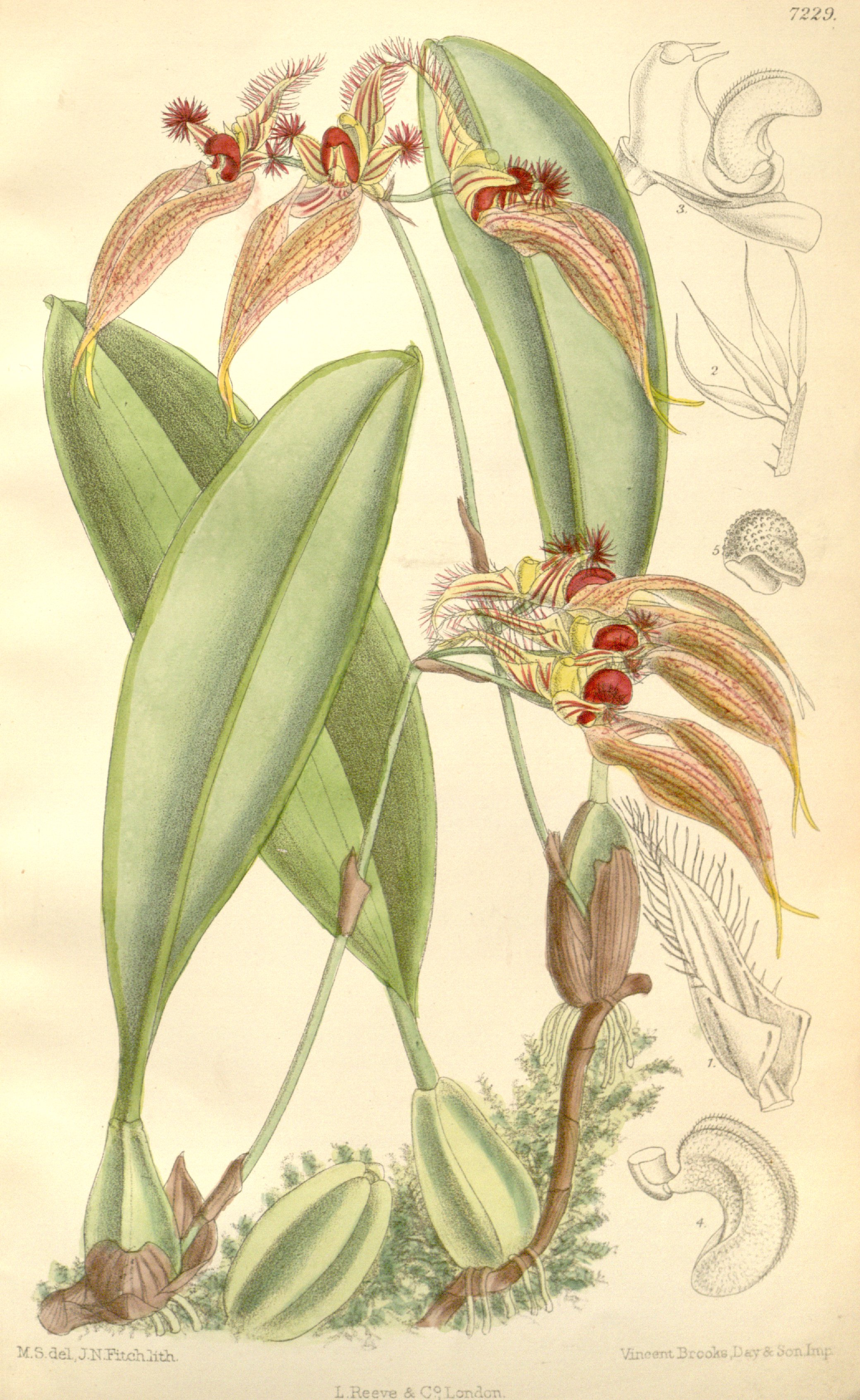 Illustration of Bulbophyllum ornatissimum (as syn. Cirrhopetalum ornatissimum)